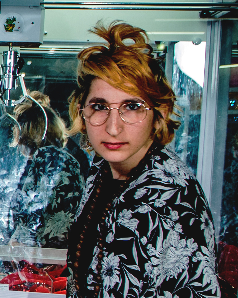 Haze'evot, 2019